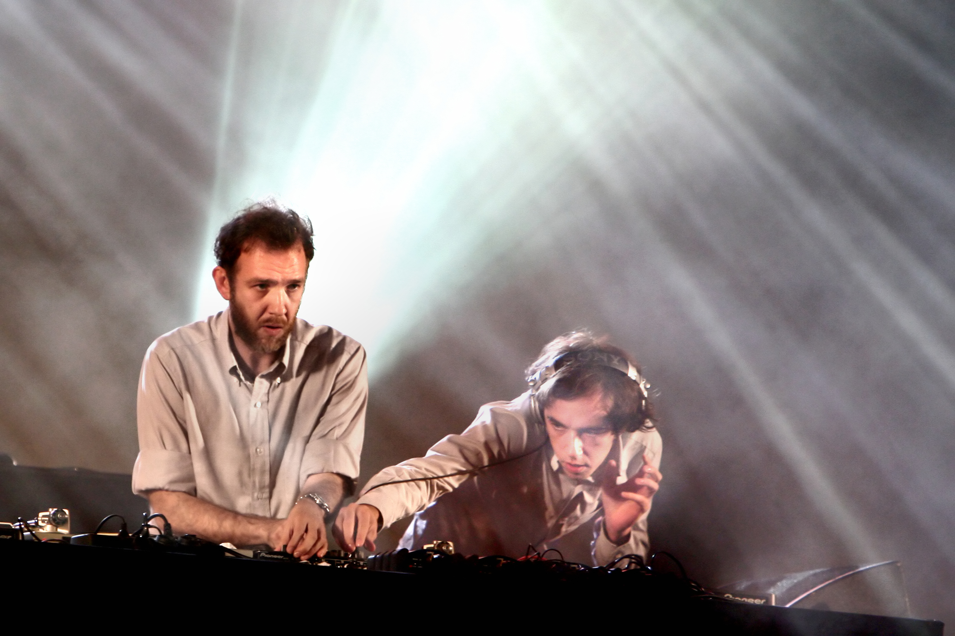 2 Many DJs (Stephen and David Dewaele / Soulwax) at Rock en Seine, August 2007